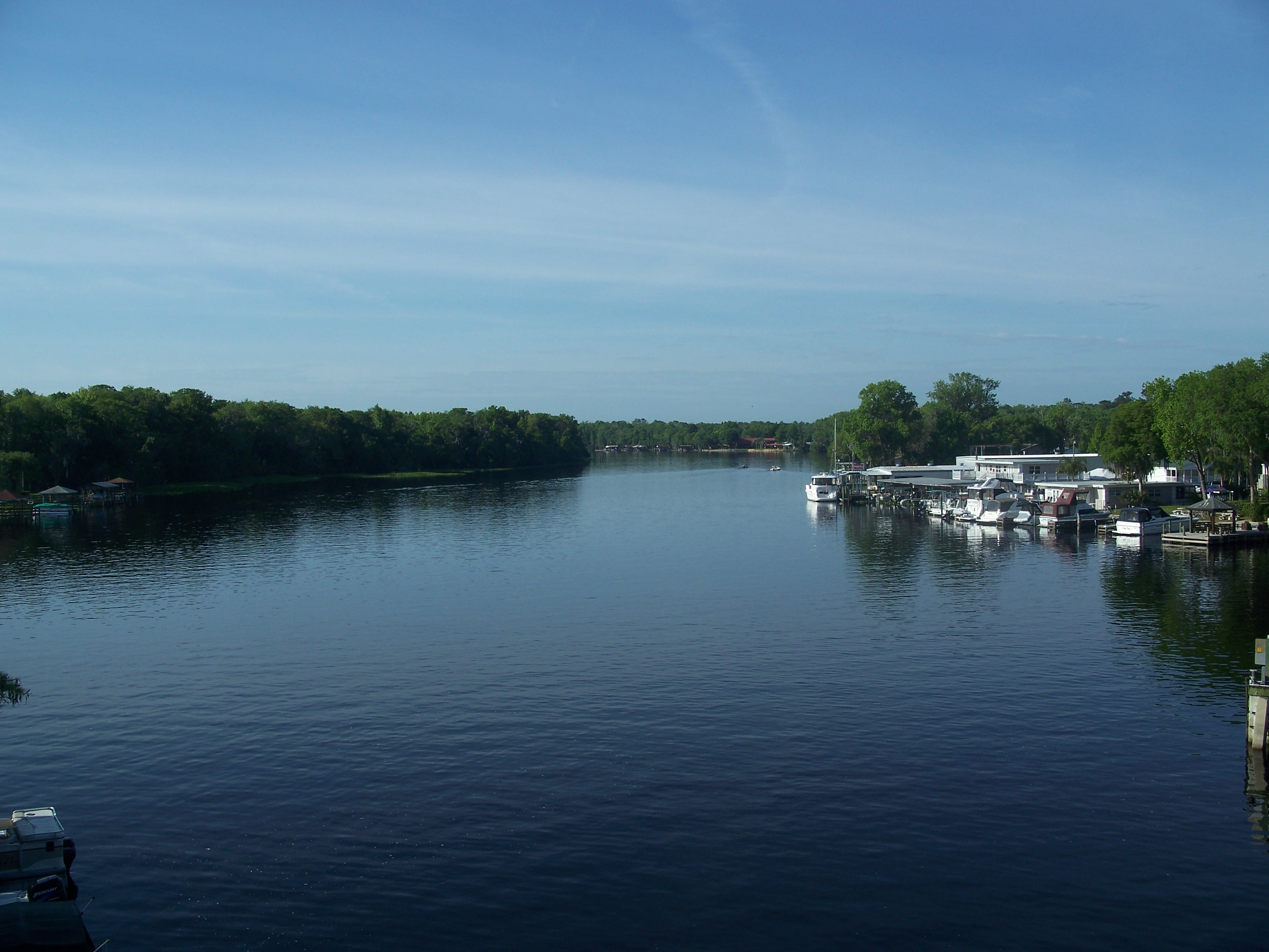 Astor, Florida: St. Johns River